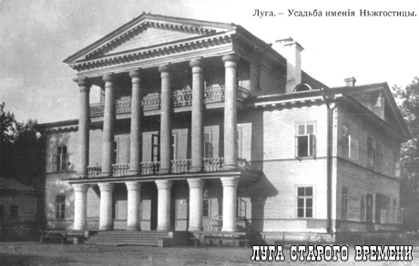 Manor house in Nezhgostitsy (ca 1830)